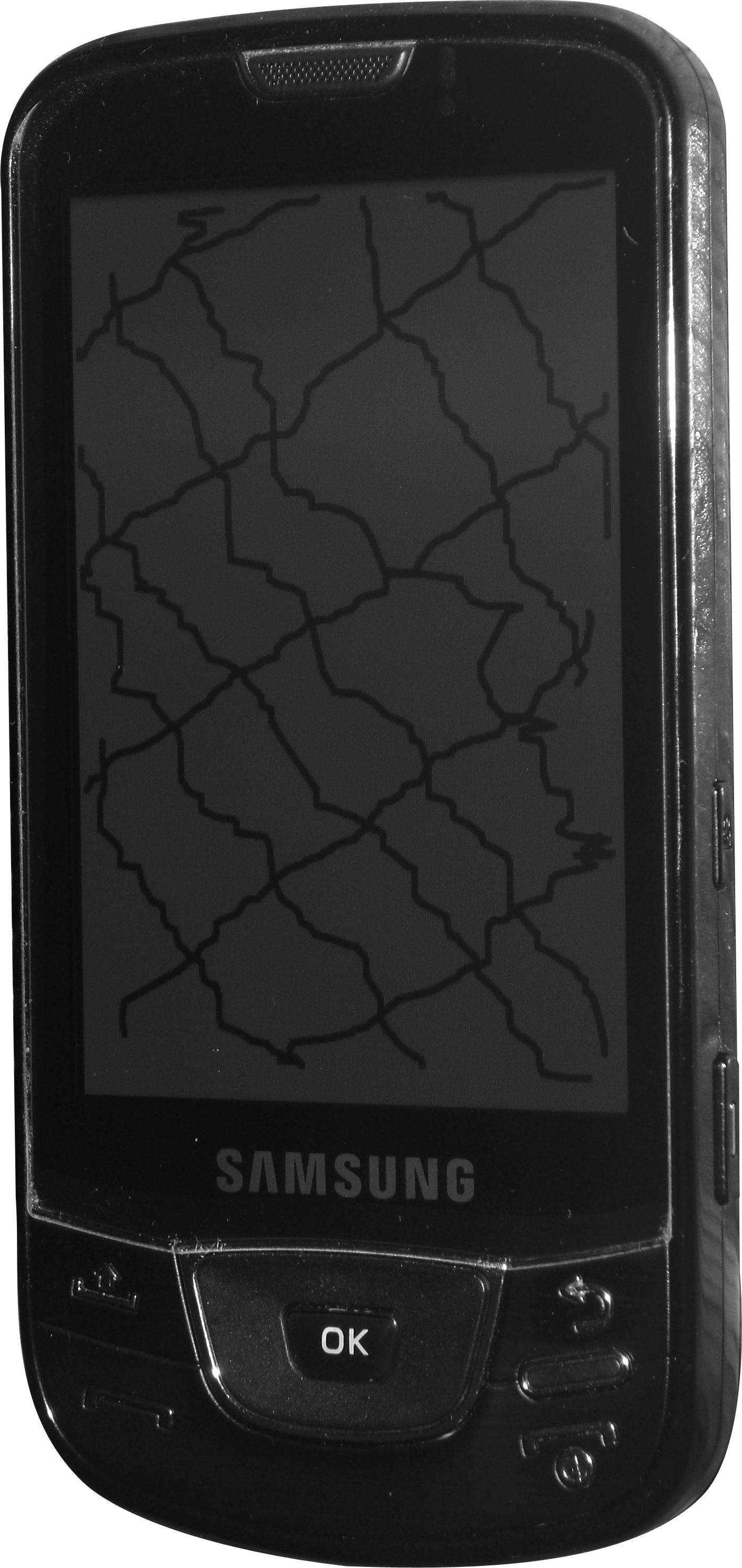 A Samsung i7500